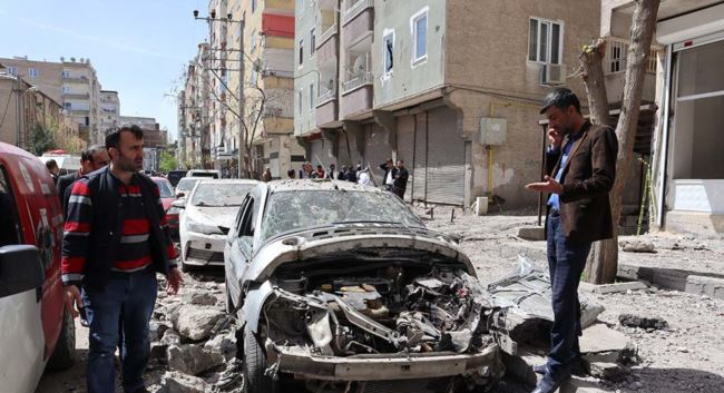 A damaged vehicle after PKK's attack in Diyarbakır, Turkey.